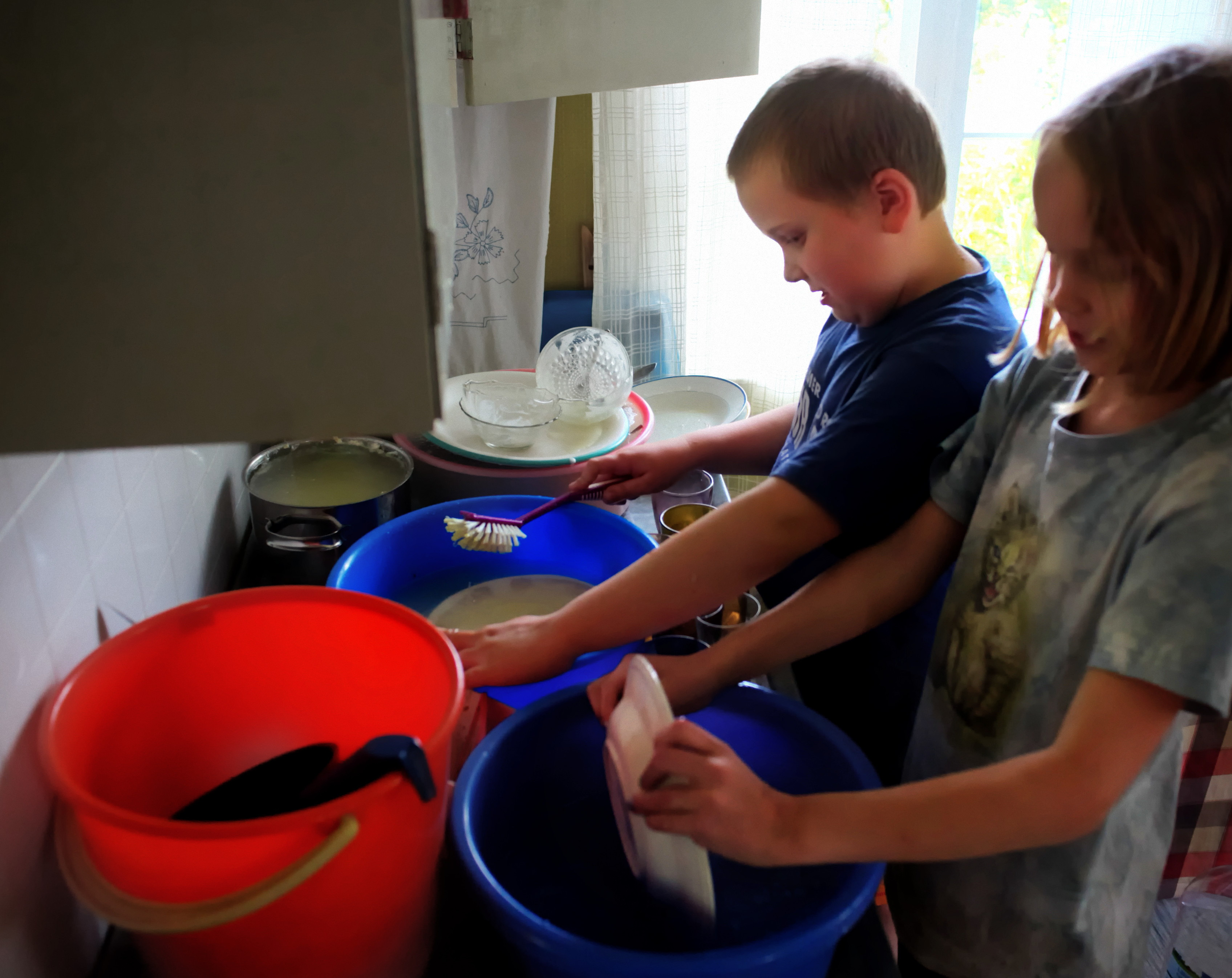 Washing The Dishes